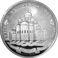 Reverse of the 1996 jubilee silver 20 Hryvnia coin "Church of the Tithes", National Bank of Ukraine.